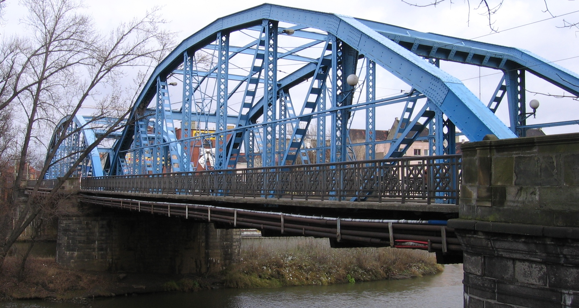 Wrocław, Poland Sikorski Bridge over Odra River